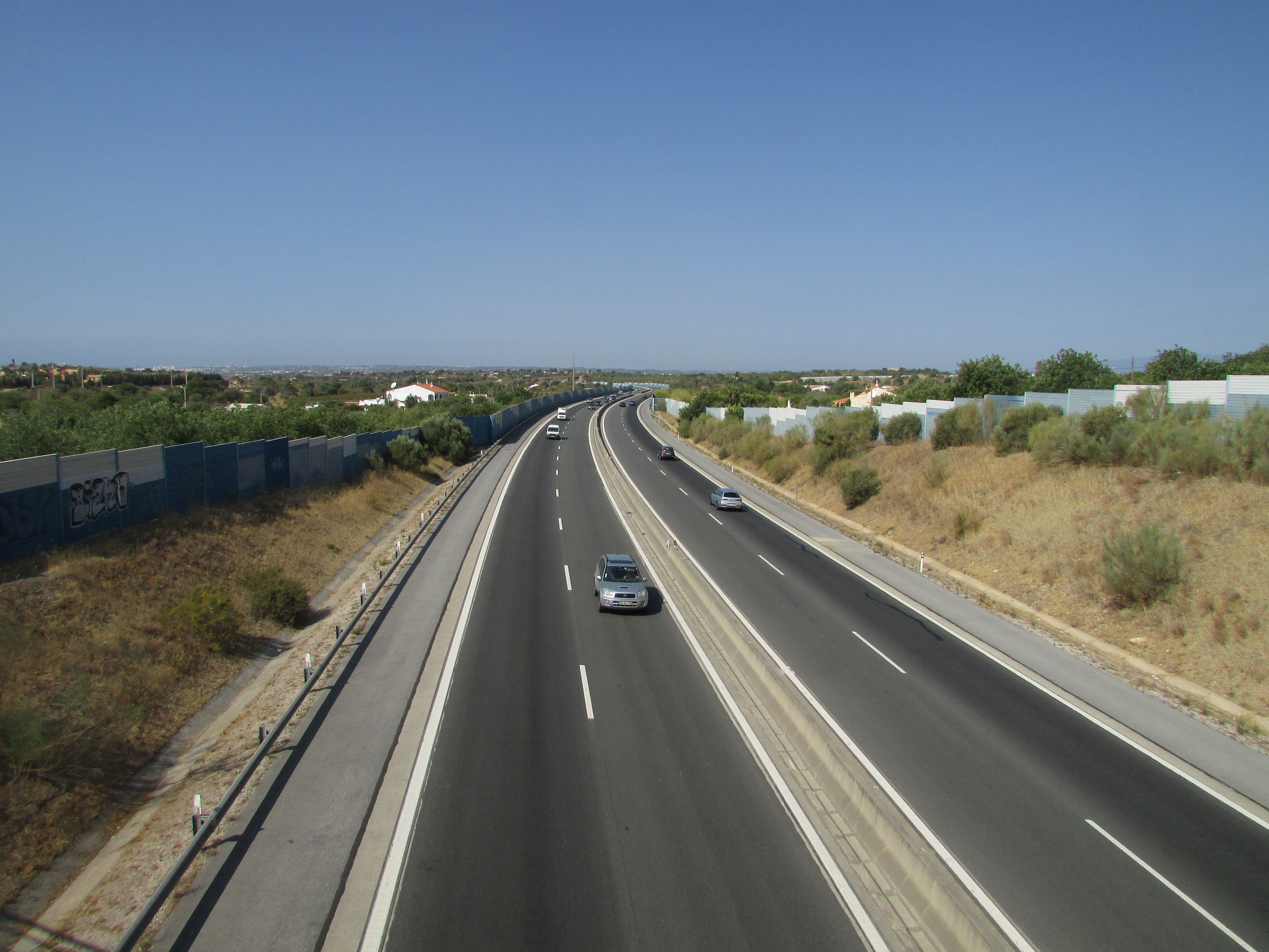 Looking west along the A22 motorway near the city of Albufeira, Algarve, Portugal.